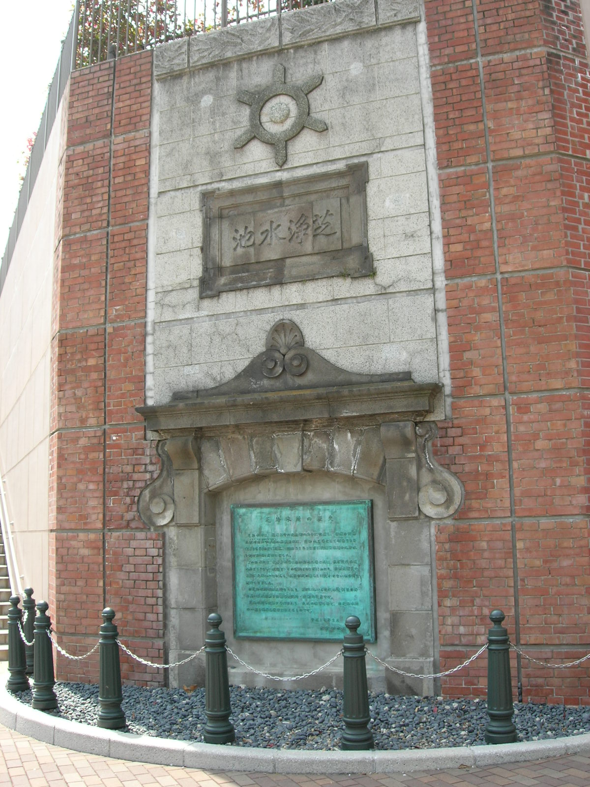 Monument of Old Shiba Water Purification Pond